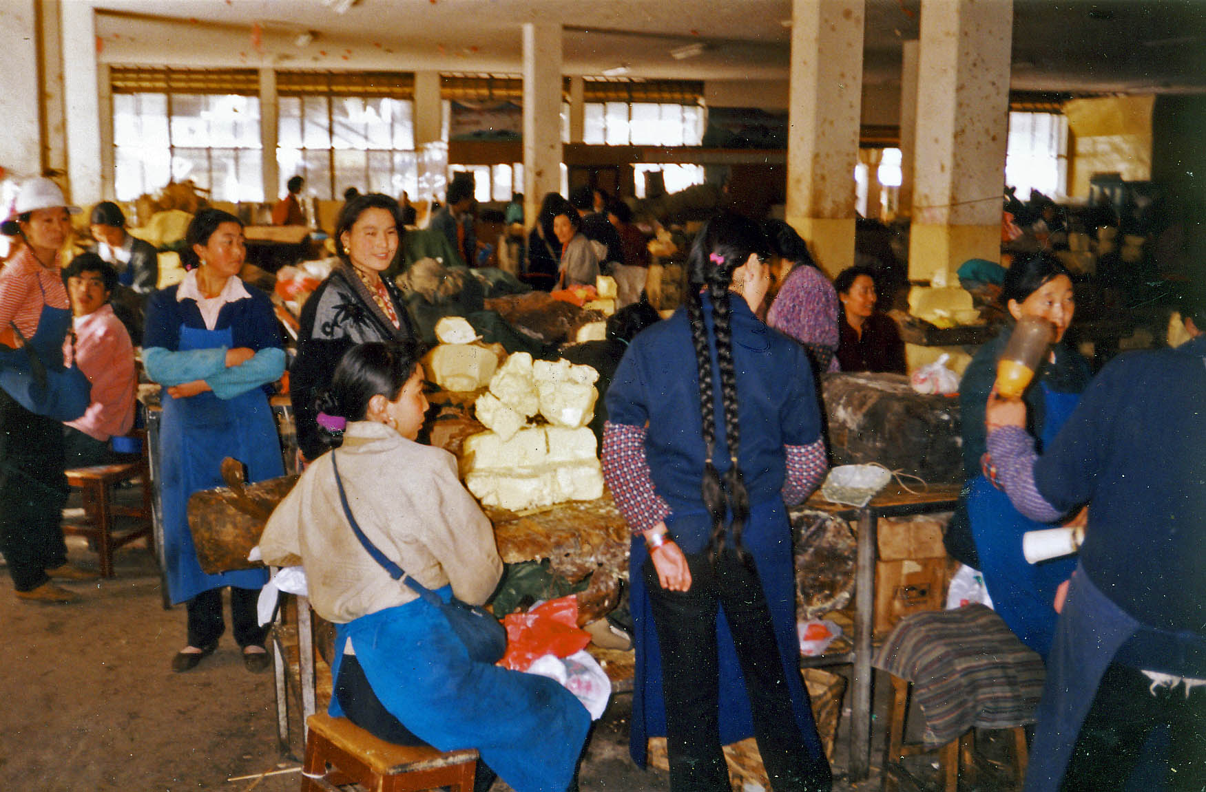 I took this photo of the butter market in Sept. 1993